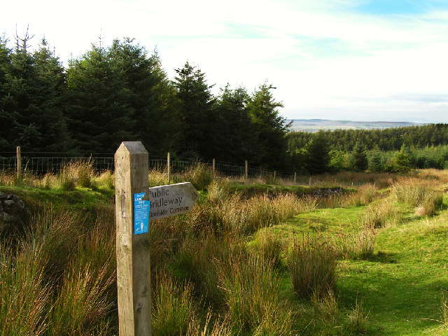 Bridleway, Kinniside Common